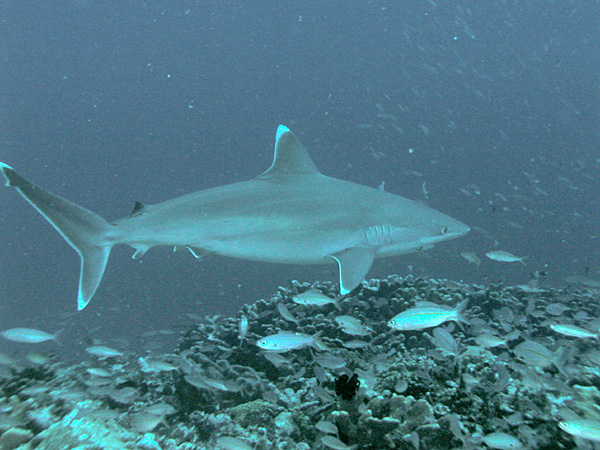 Silvertip Shark, New Hanover Island, Papua New Guinea. Image taken by Clark Anderson/Aquaimages.